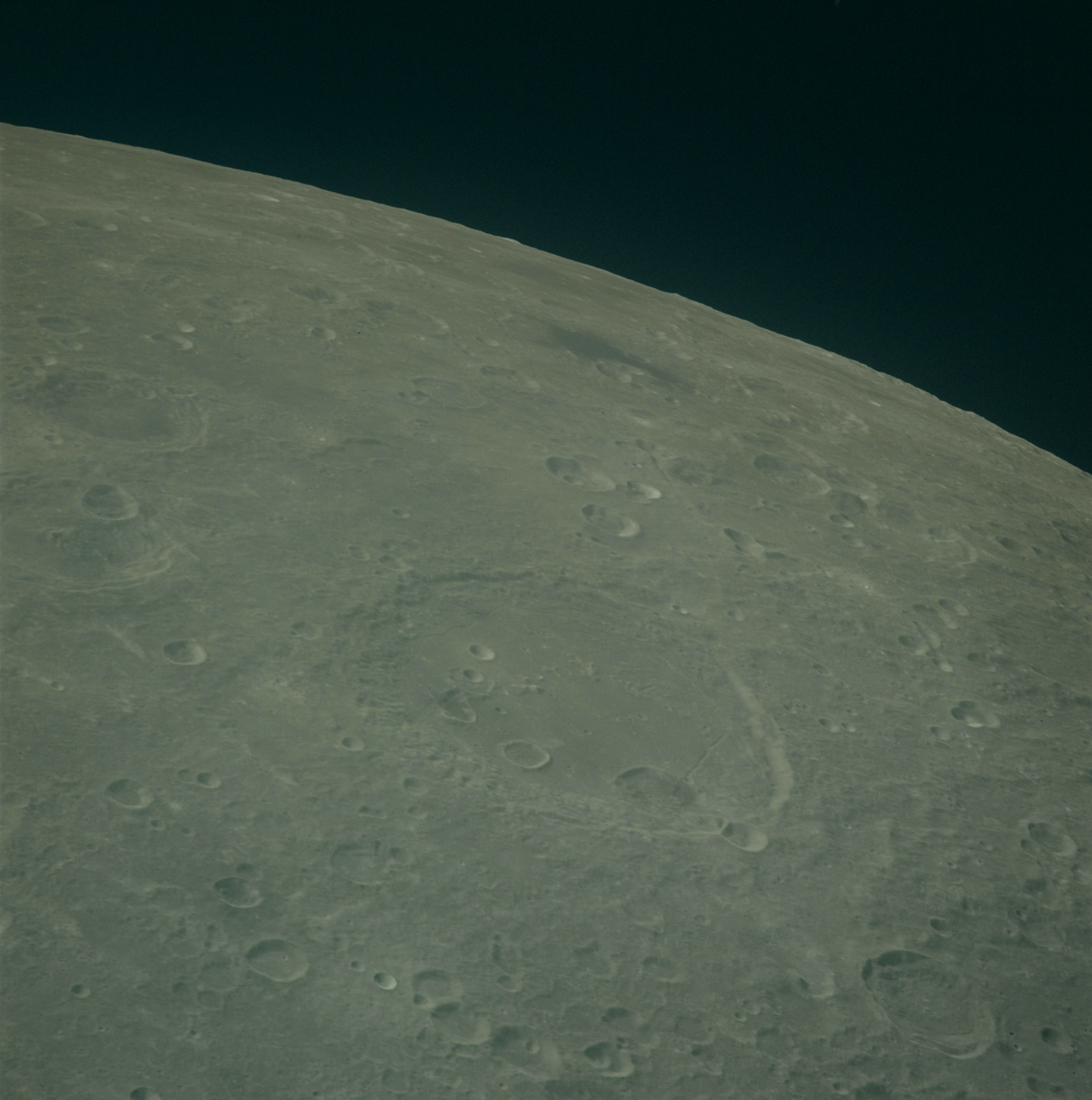 Oblique view of Gauss crater (below center), with Lacus Spei (dark patch, central horizon), on the moon. Cropped slightly from original and brightness and contrast adjusted.